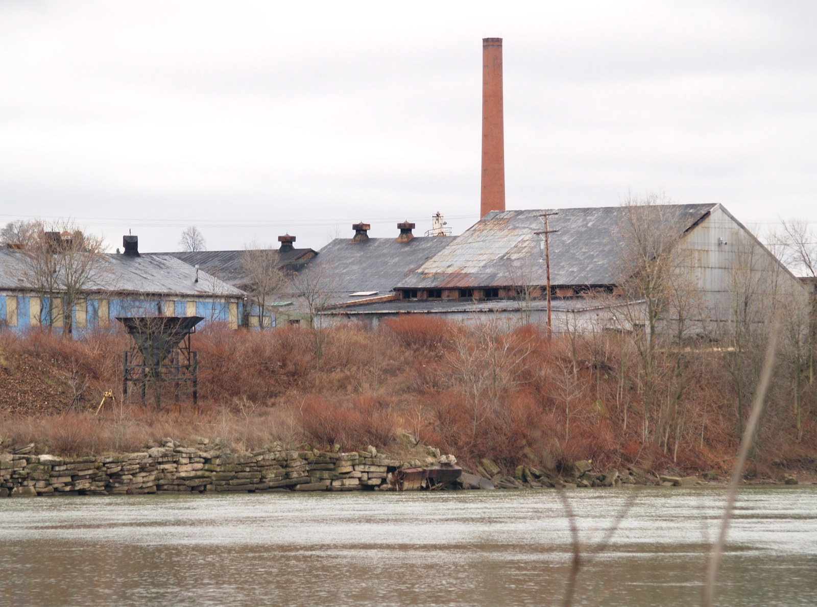 Old Factory Smokestack & Hopper Across The Allegheny